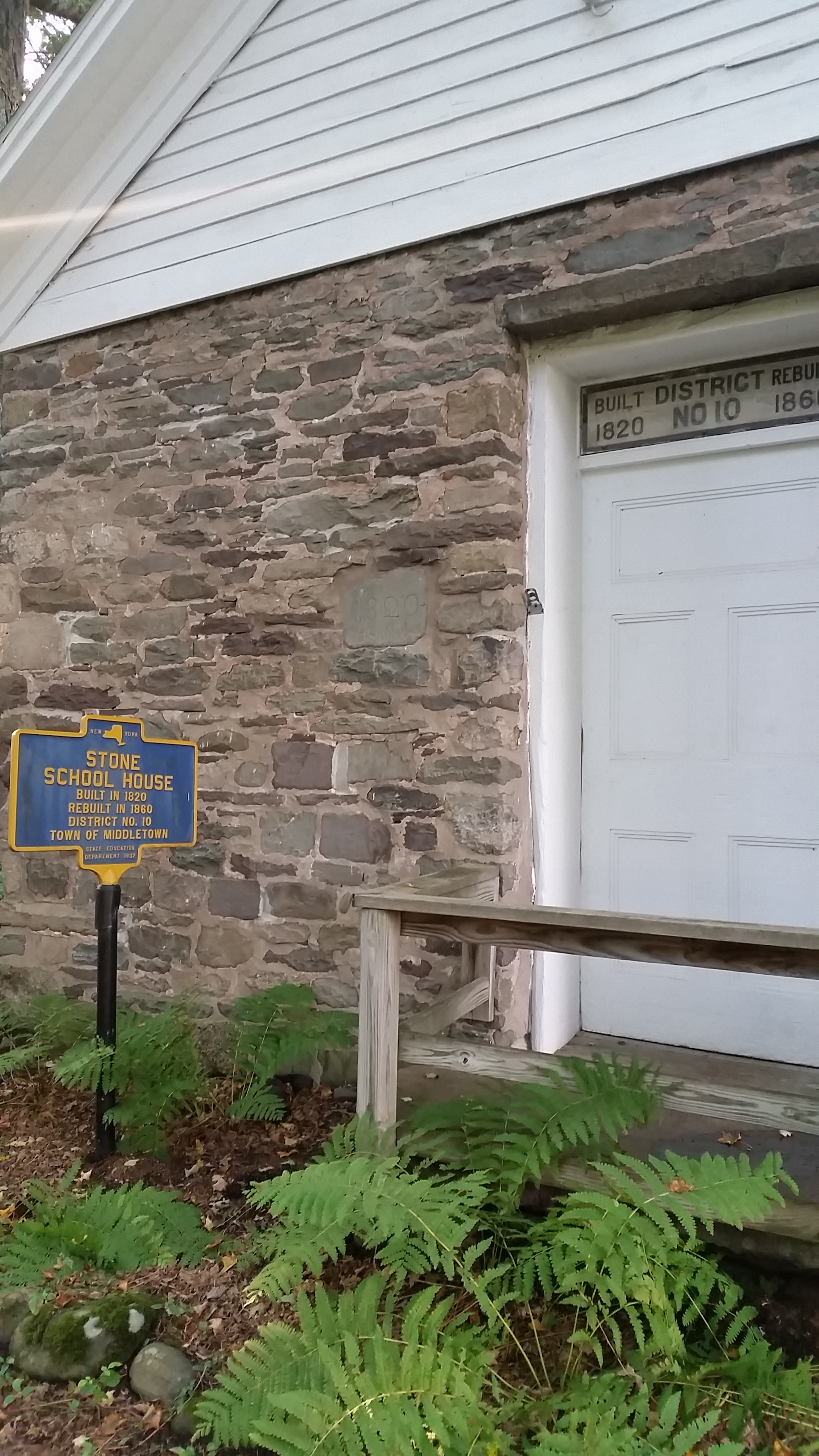 New York State historic marker for the Stone School House in Middletown, NY (the Ulster County Middletown) (the marker by the school, not the one by the road)